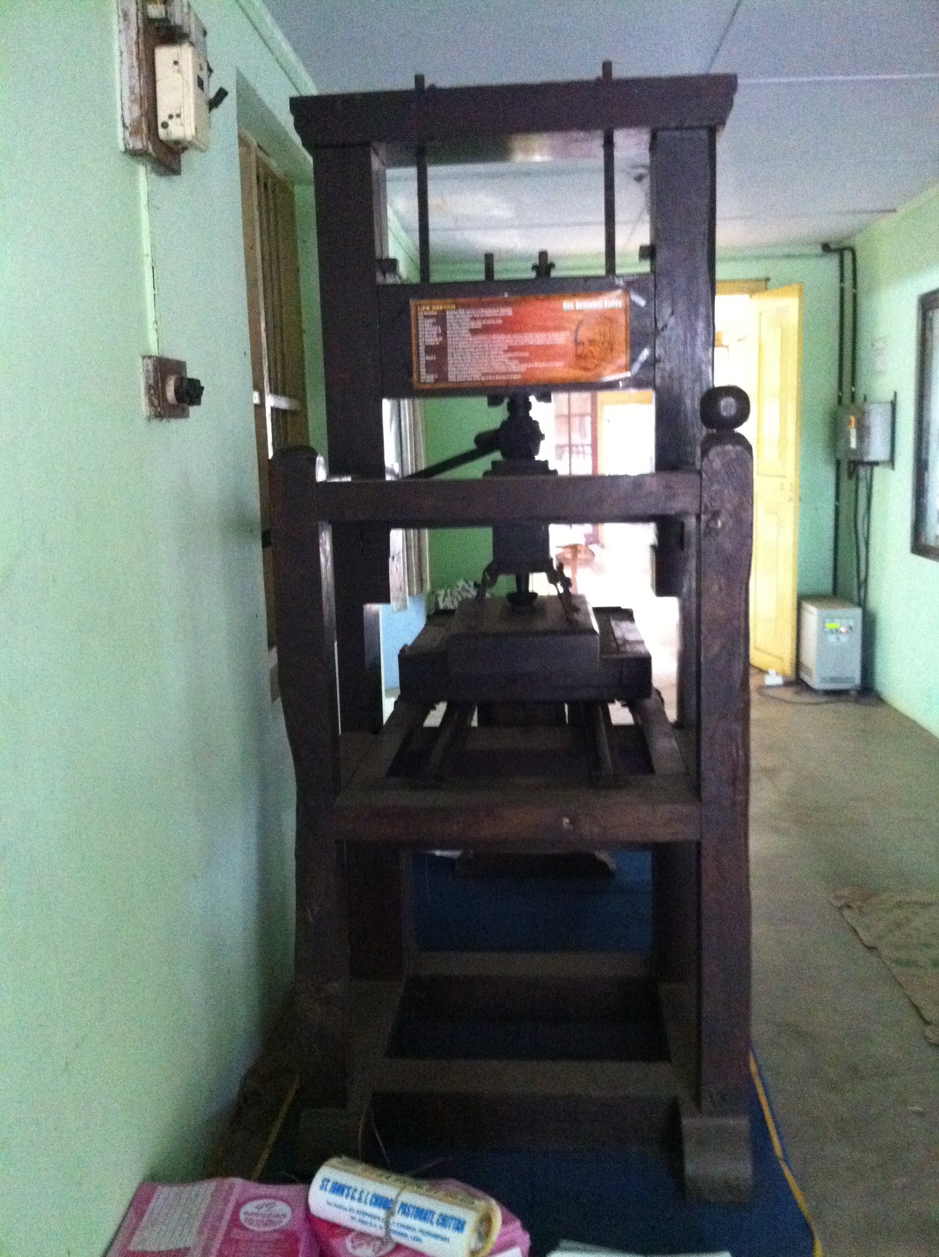 Benjamin Bailey's printing press, currently situated at CMS Press, Kottayam